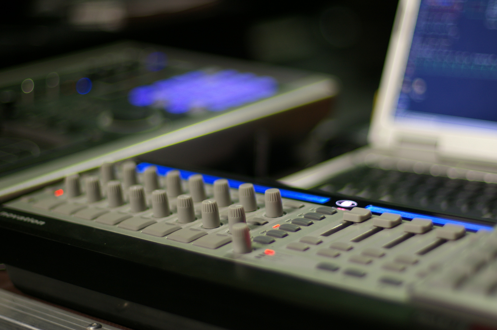 Midi controller, with laptop and Edirol CG8 Roland/Edirol CG-8 Visual Synthesizer Novation ReMOTE ZeRO SL